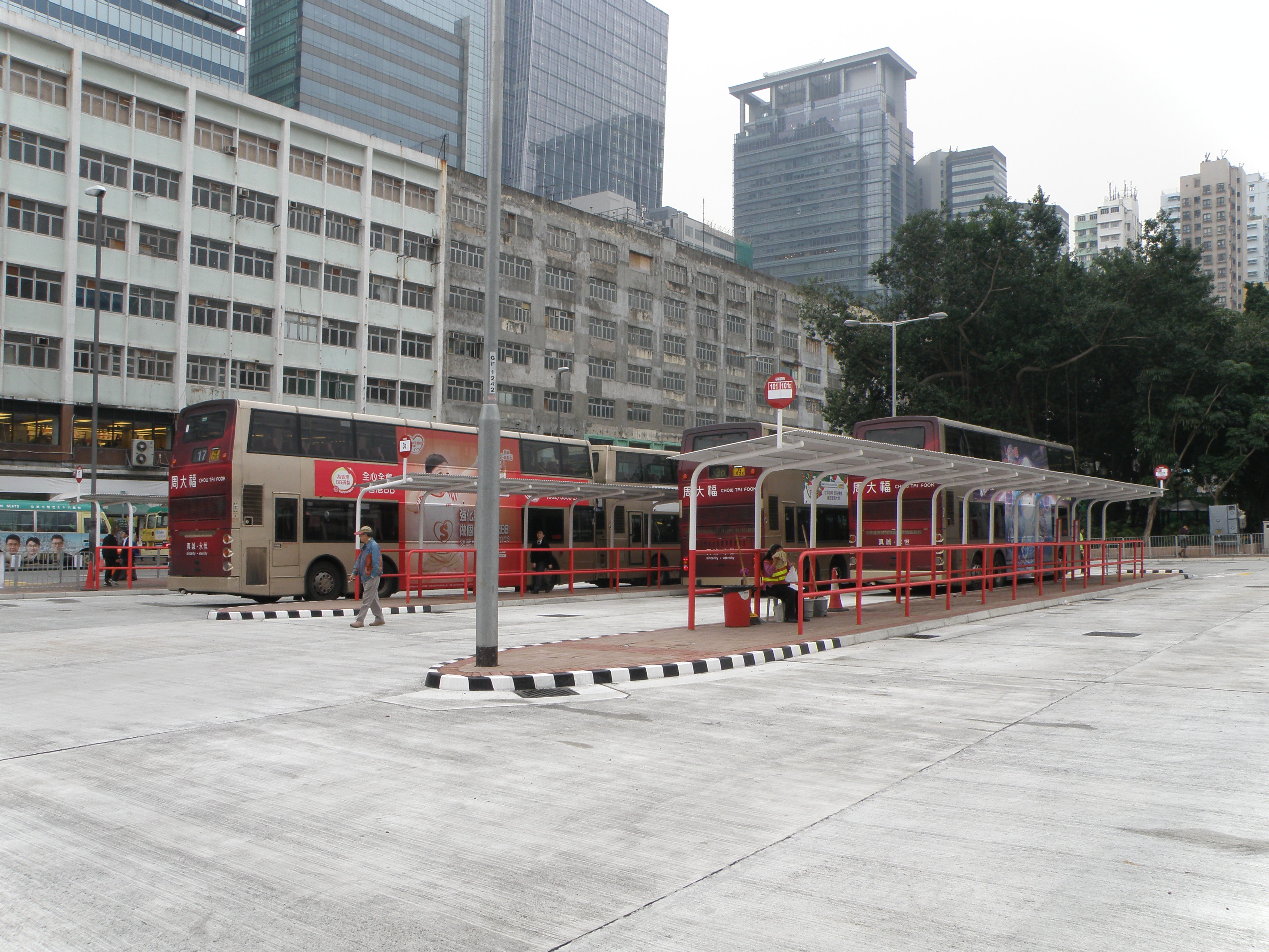 Yue Man Square Bus Terminus in Kwun Tong, Hong Kong.